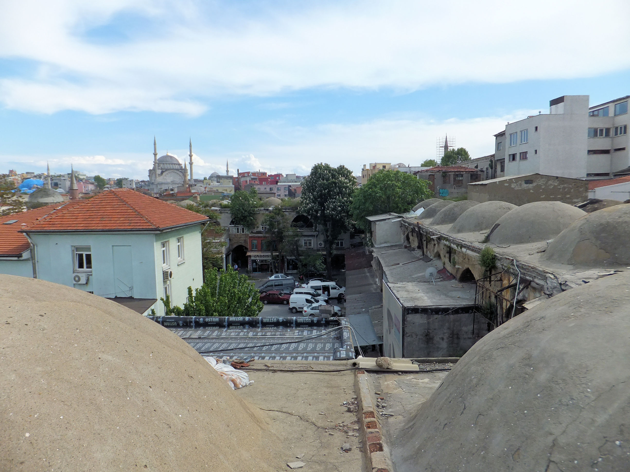 Büyük Valide Han, view of the main courtyard (with many later structures now added to the building in various places)